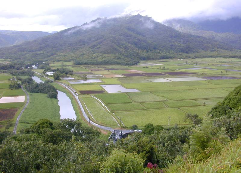 Photographer: Marshman Description: View of extensive kalo (taro) pondfields in Hanalei Valley seen from lookout near Princeville, taken August 26, 2004 by Eric Guinther (Marshman). Every tourist to Kaua`i has one of these. Please donate a better one to Wikipedia.